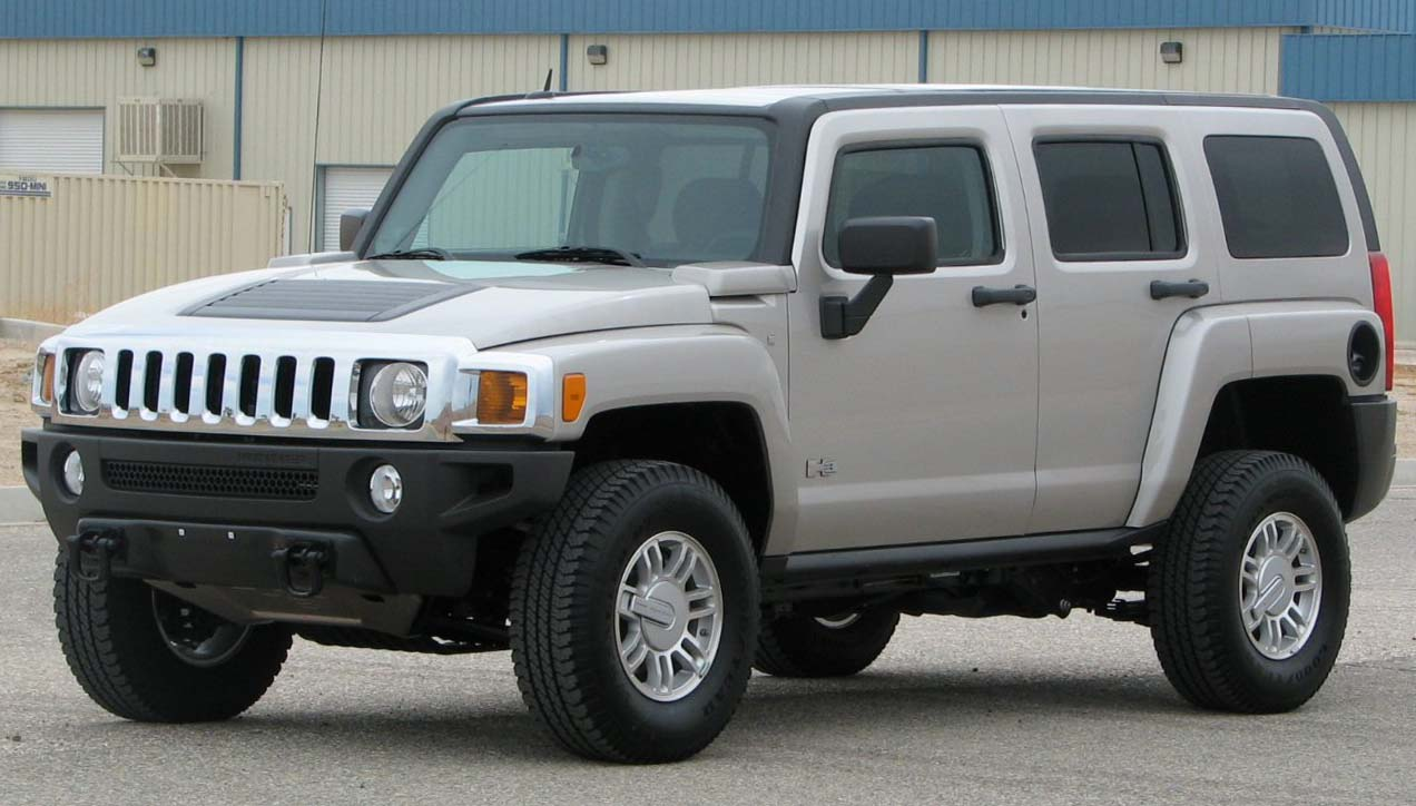 2007 Hummer H3 photographed in USA.